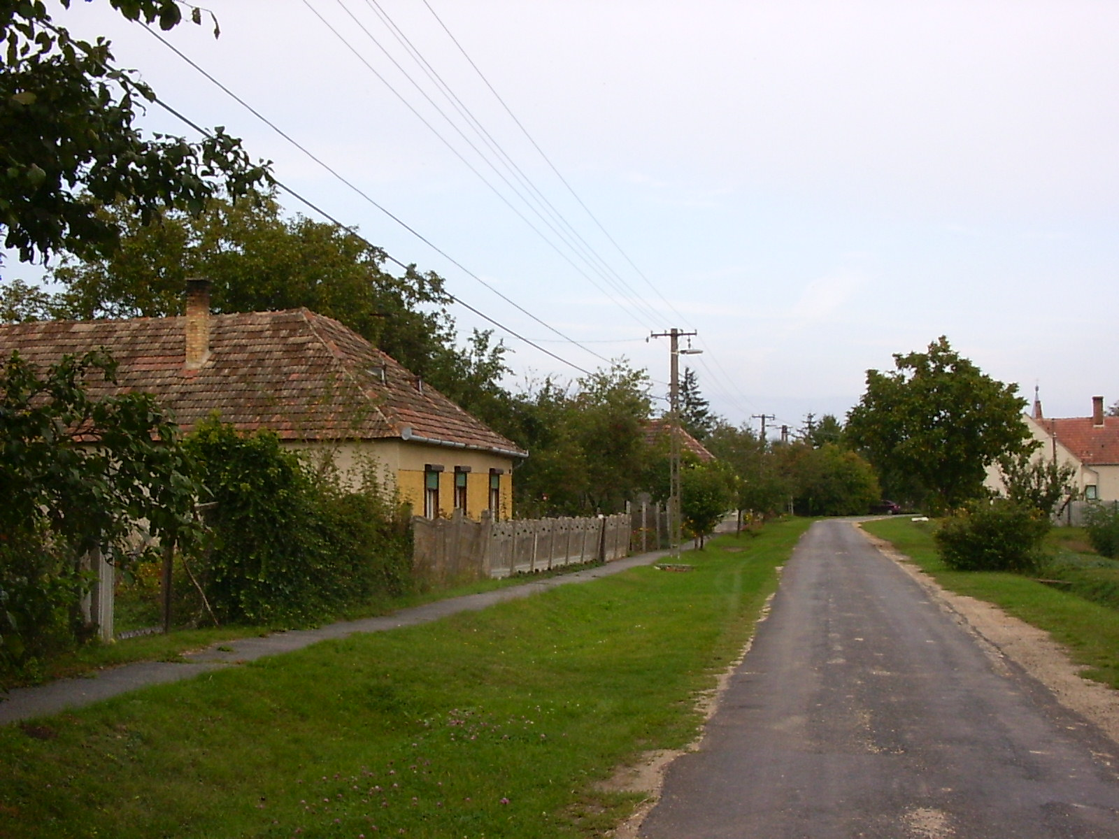 Csér, street view in Fő utca (Main street)